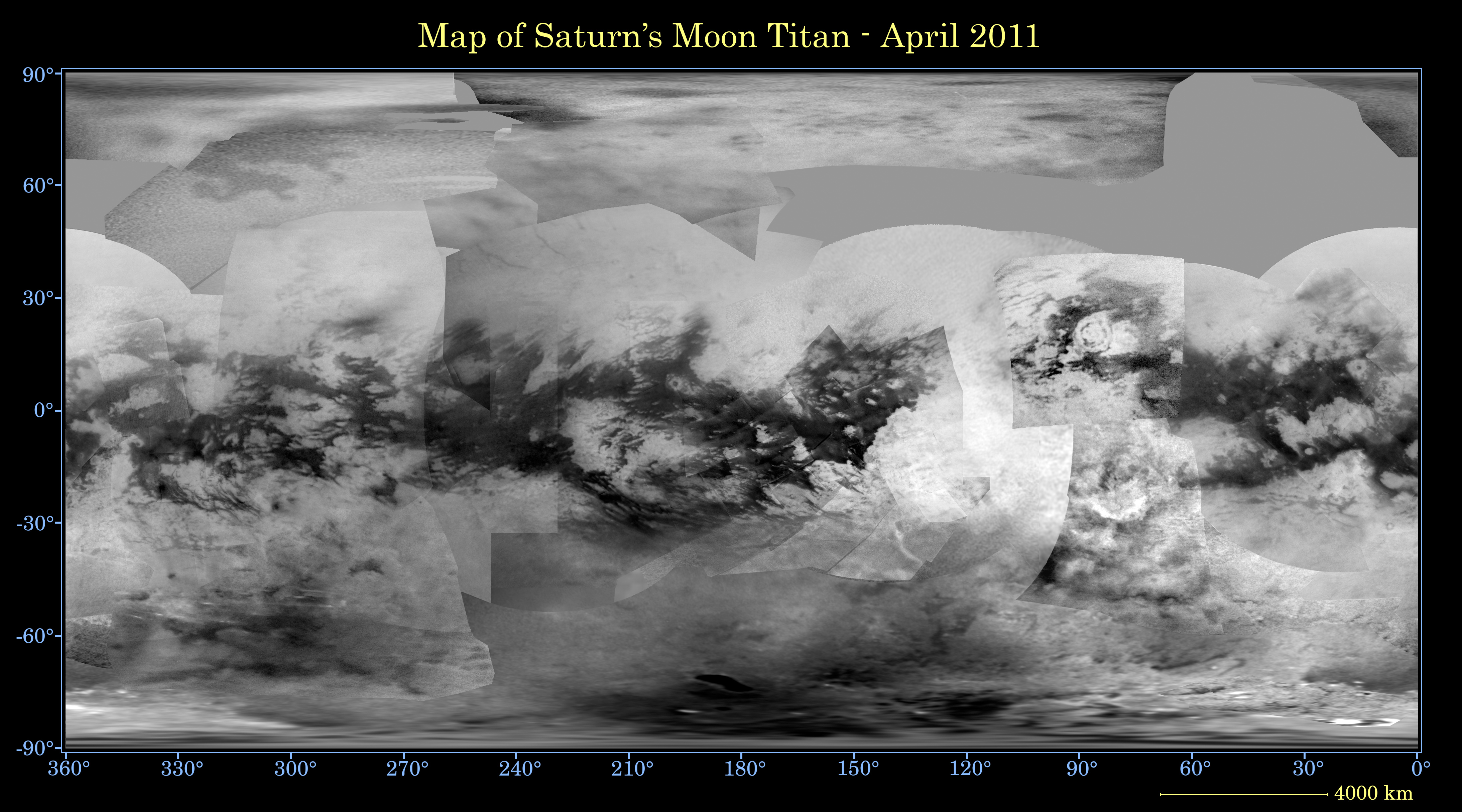 This global digital map of Saturn's moon Titan was created using images taken by the Cassini spacecraft's imaging science subsystem (ISS). The images were taken using a filter centred at 938 nanometres, allowing researchers to examine variations in albedo (or inherent brightness) variations across the surface of Titan. Because of the scattering of light by Titan's dense atmosphere, no topographic shading is visible in these images. The map is an equidistant projection and has a scale of 4 kilometres per pixel. Actual resolution varies greatly across the map, with the best coverage (close to the map scale) along the equator near the centre of the map at 180 degrees west longitude and near the left and right edges at 0 and 360 degrees west longitude. The worst coverage is on the leading hemisphere (particularly around 120 degrees west longitude) and in some northern latitudes. Coverage in the northern polar region continues to improve as the north pole comes out of shadow after Titan's northern vernal equinox in August 2009. Large dark areas, now known to be liquid-hydrocarbon-filled lakes, have been documented at high latitudes. This map is an update to the version released in February 2009. Data from the last two years, including the most recent data in the map from April 2011, have improved coverage in the southern trailing hemisphere and over portions of the north polar region. The mean radius of Titan used for projection of this map is 2,575 kilometres. Titan is assumed to be spherical until a control network -- a model of the moon's shape based on multiple images tied together at defined points on the surface -- is created at some point in the future.